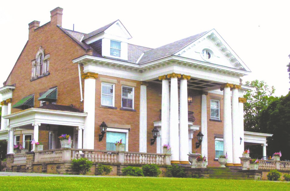 WL Thompson home known as "Softly & Tenderly House" as it stands today.